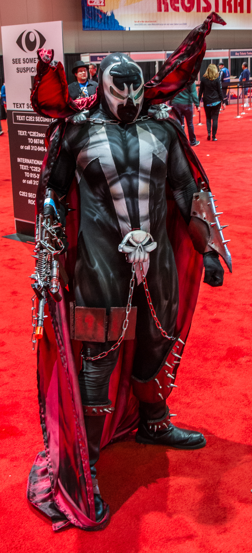 Cosplay at the 2013 Chicago Comic & Entertainment Expo (C2E2).